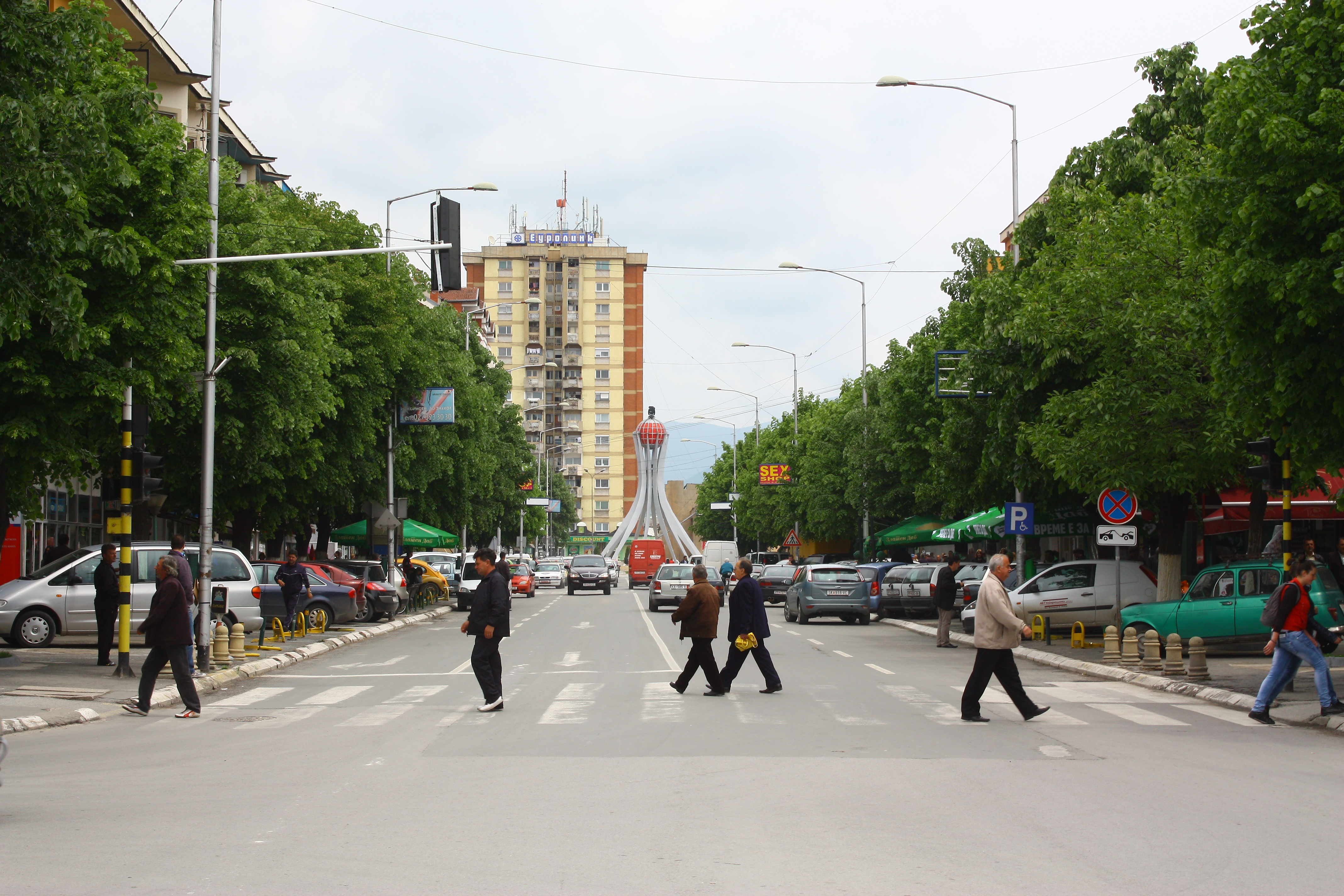 Prilep, Macedonia